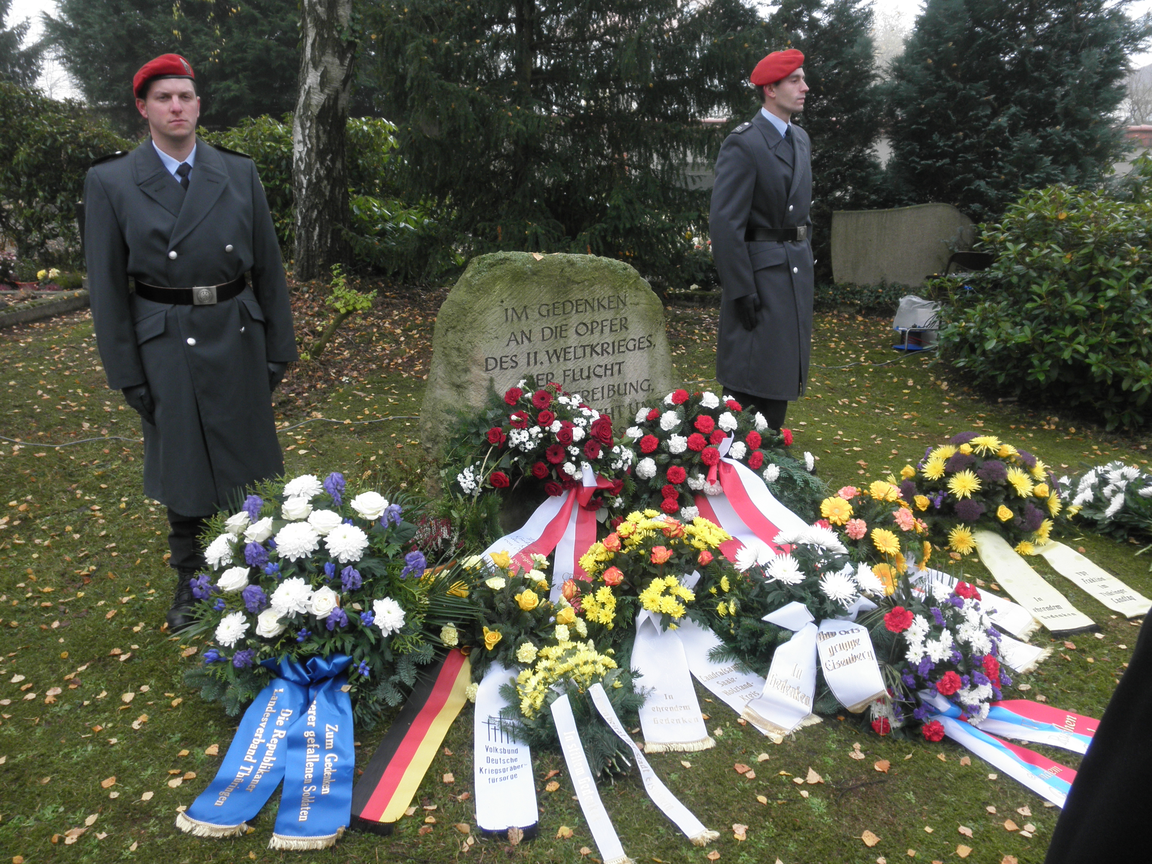 War Memorial in Eisenberg (Thüringen) in Thuringia